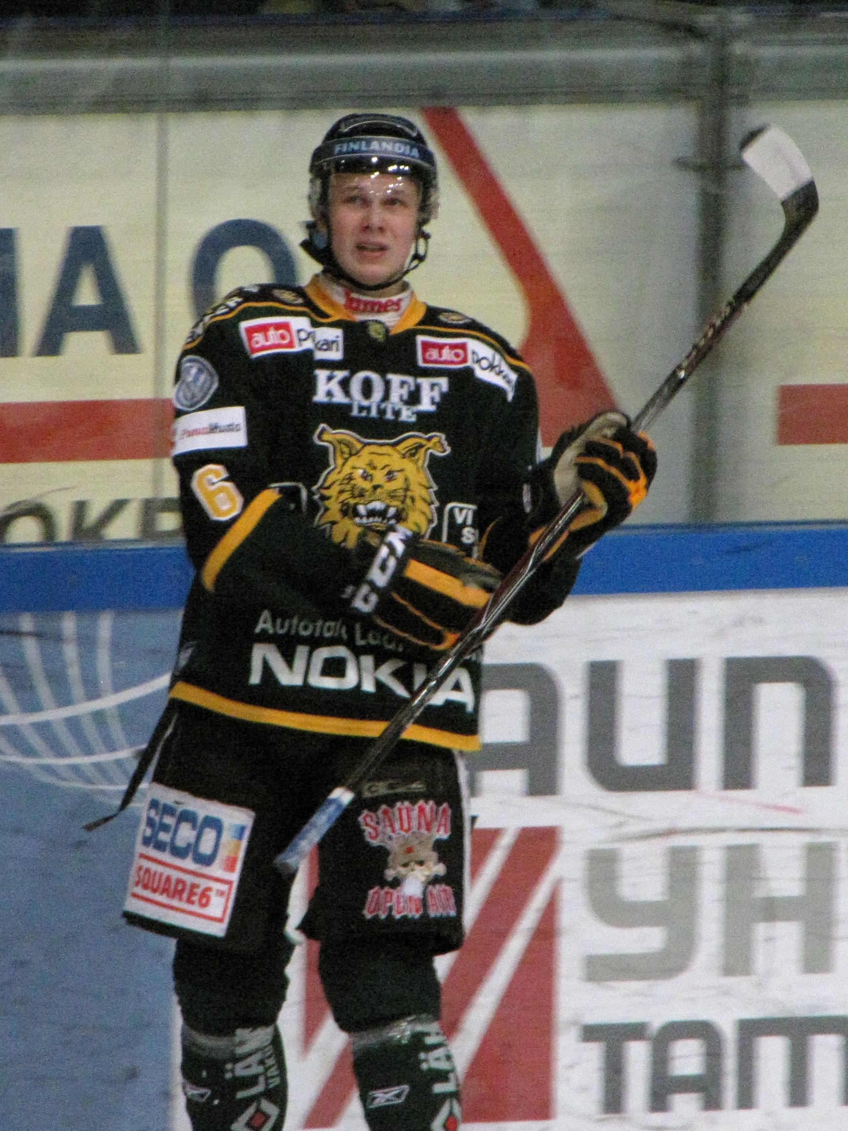 Finnish ice hockey defenceman Jyrki Jokipakka playing for Tampere Ilves in an SM-liiga game against Lahti Pelicans in Tampere, Finland, in February, 2011.